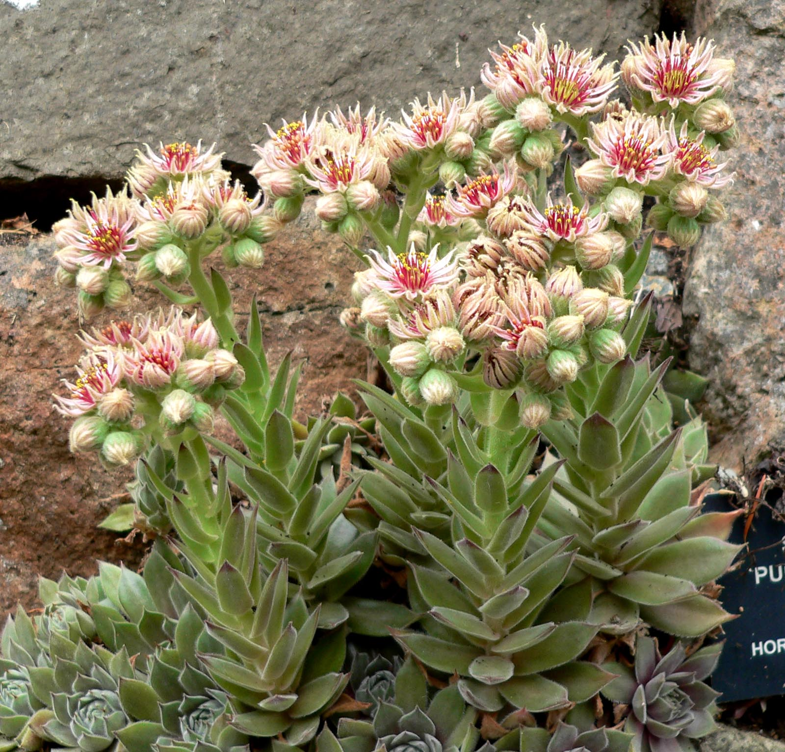 Photo of Sempervivum 'Purdy's No. 70-1' at the UBC Botanical Garden in Vancouver